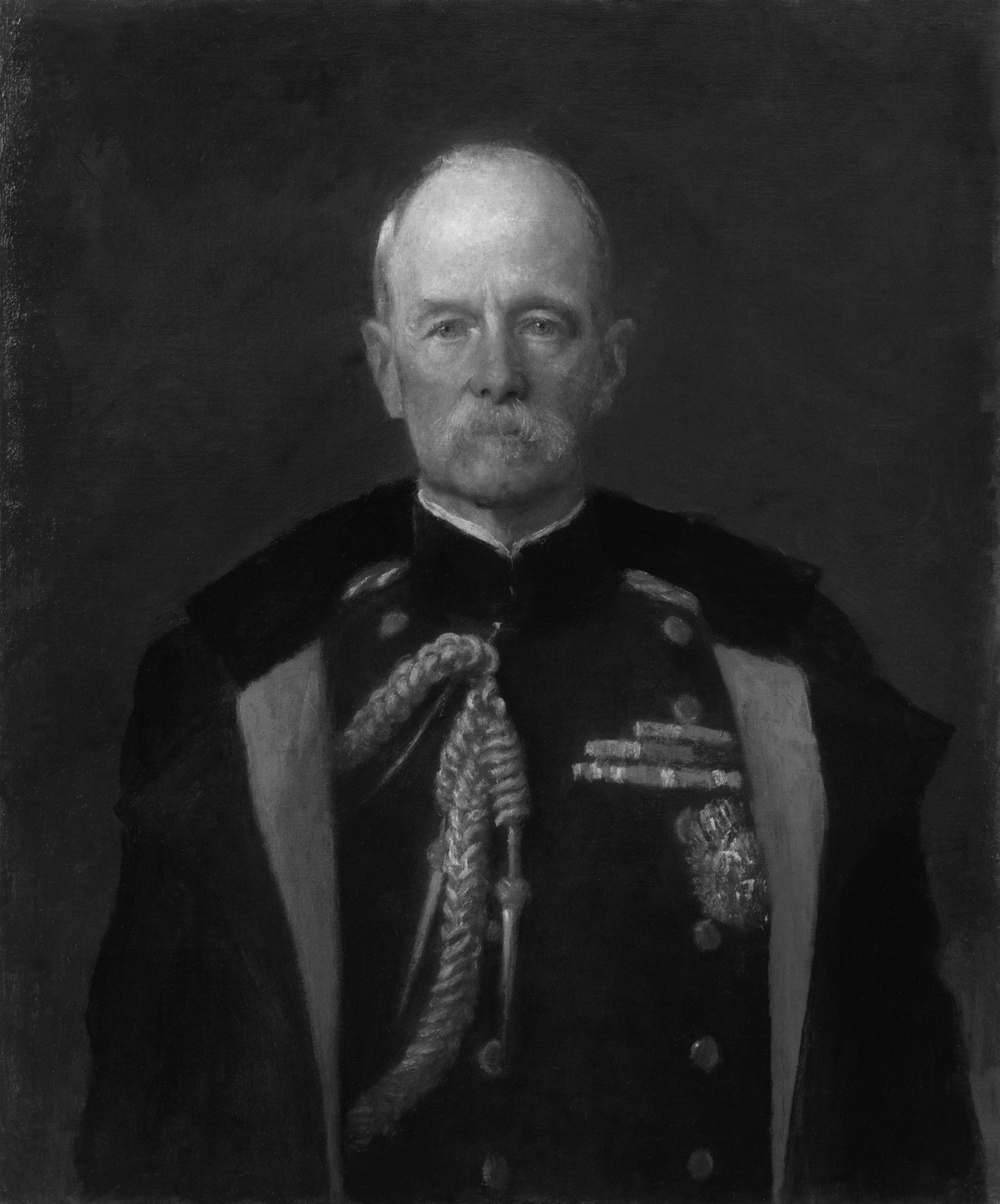 Frederick Sleigh Roberts, 1st Earl Roberts, by George Frederic Watts (died 1904), given to the National Portrait Gallery, London in 1914. All images in this batch have been confirmed as author died before 1939 according to the official death date listed by the NPG.